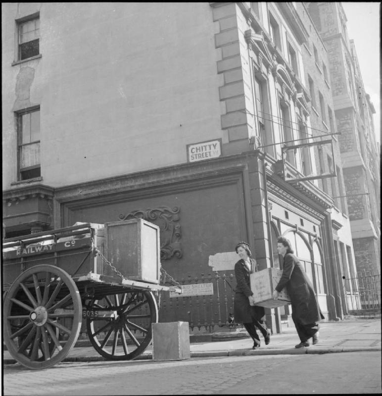 Van Girl- Horse and Cart Deliveries For the London, Midland and Scottish Railway, London, England, 1943 After lunch, Lilian Carpenter (left) and Vera Perkins collect items to be loaded into their horse-drawn van and taken back to the depot for onward transport by train. They are about to load a tea chest, collected from a building on the corner of Chitty Street, onto the LMS Railway Company van. A small cat is just visible behind Lilian, watching the proceedings from behind the railings.